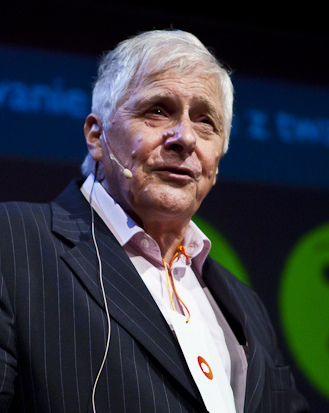 Jerzy Vetulani speaking at TEDx Kraków 2011.